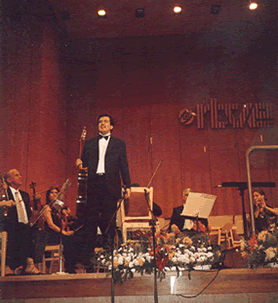 Carlos Pérez